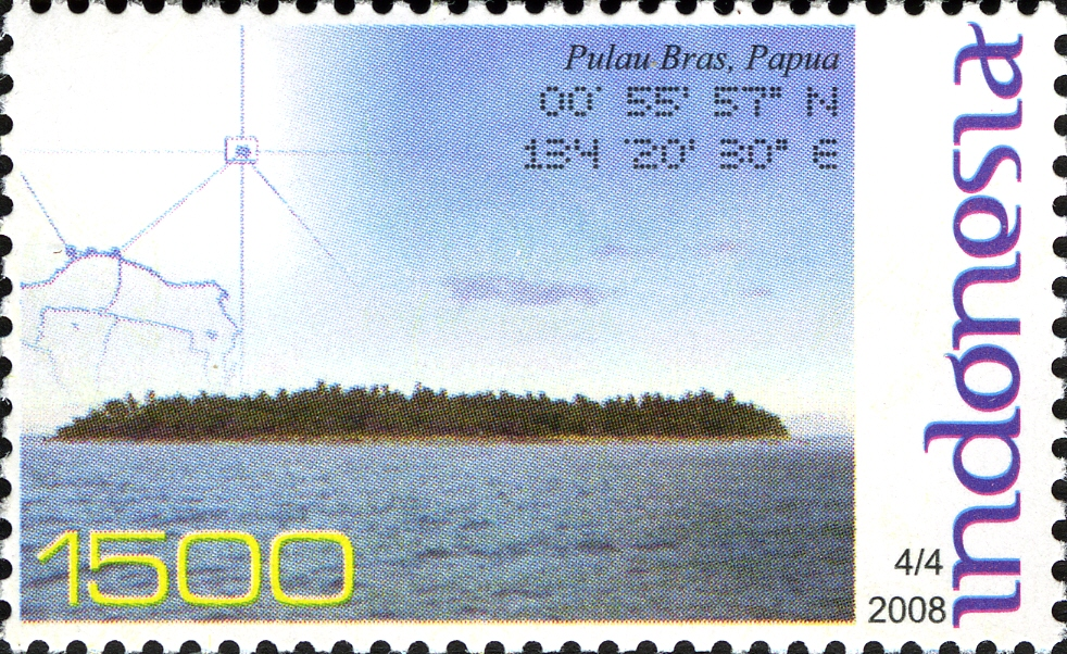 Stamps of Indonesia